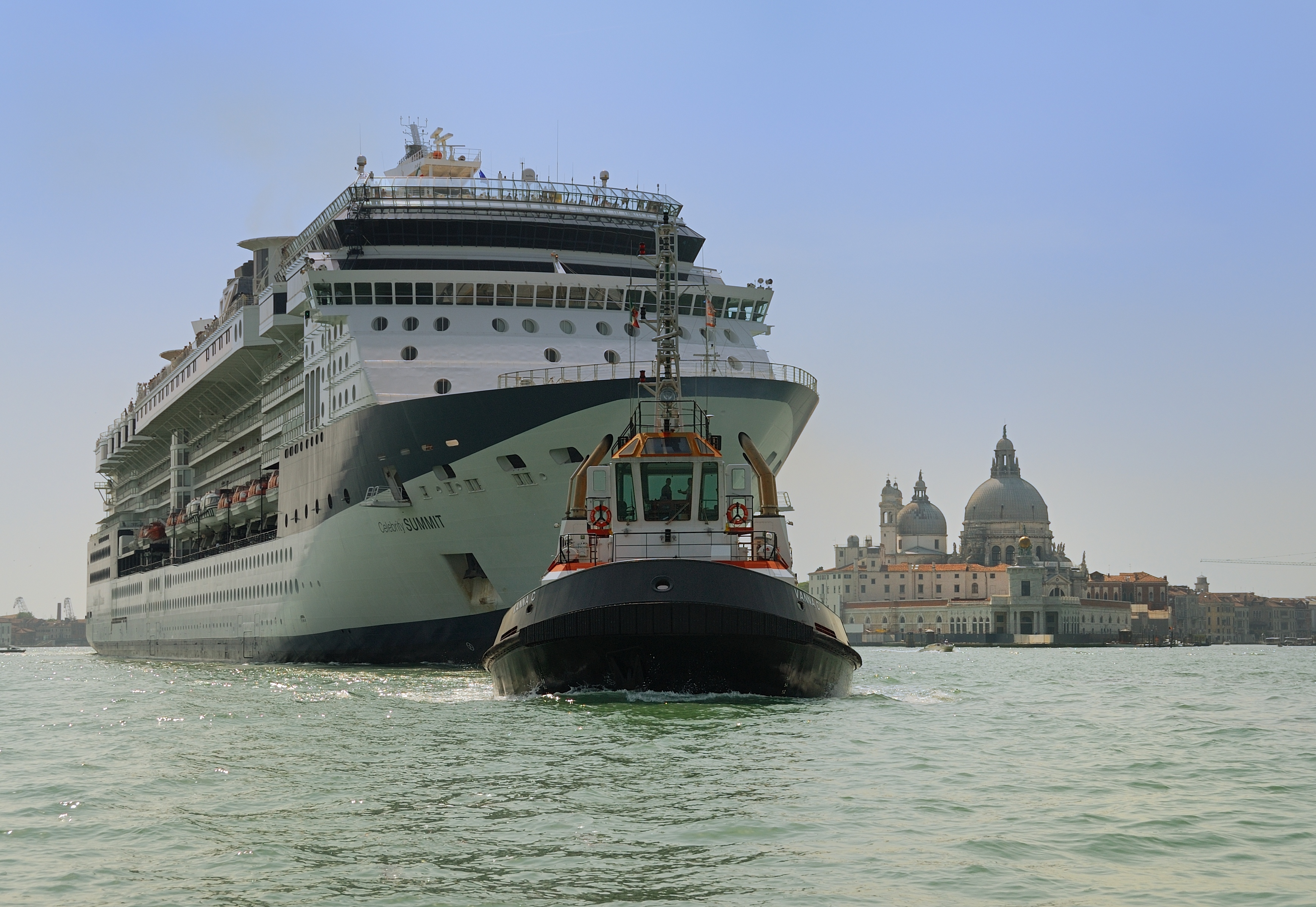 Cruise ship Celebrity Summit towed by the tugboat Vanna C leaving Venice. In the background the basilica Santa Maria della Salute.